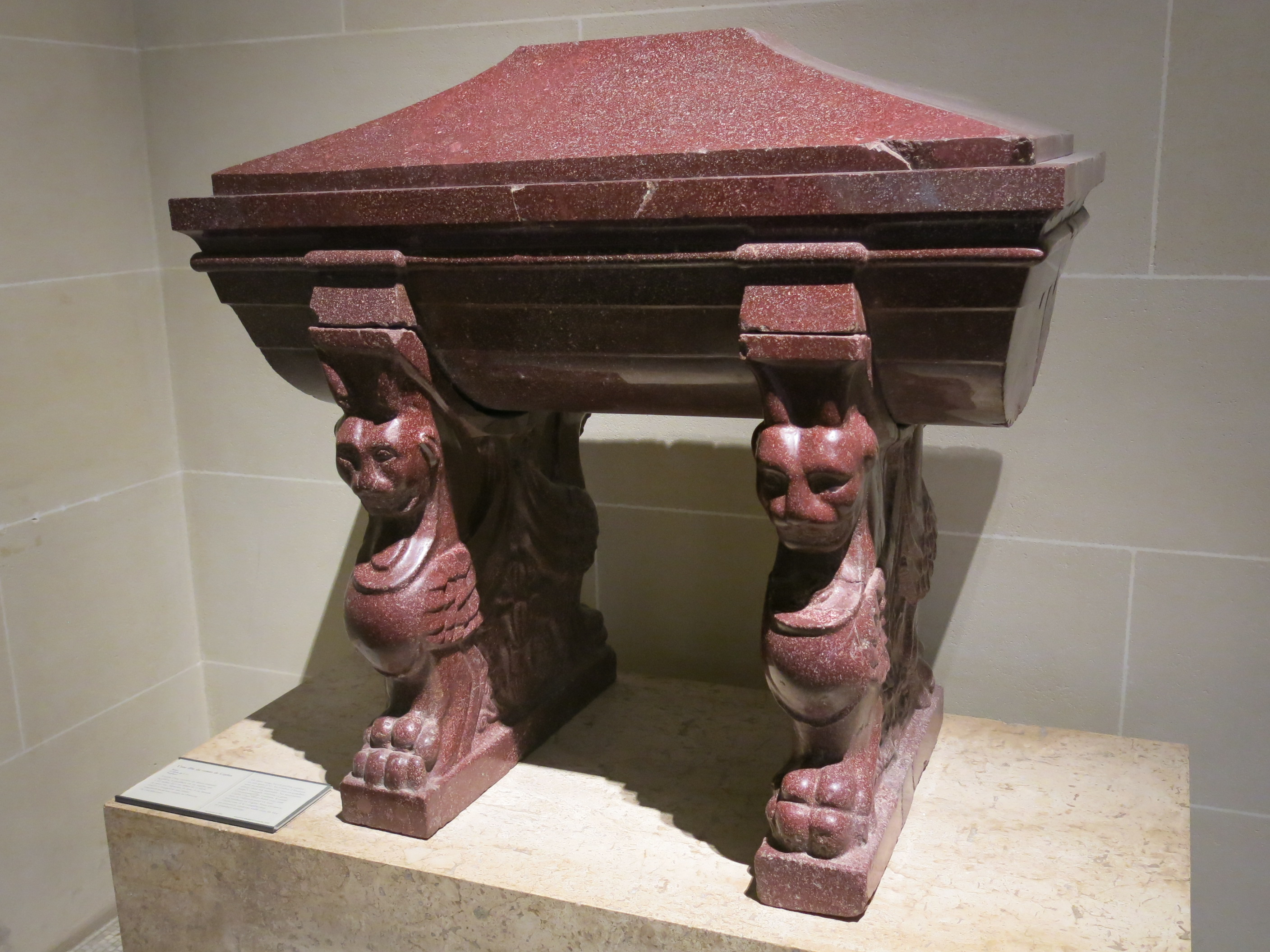 Antic roman urn in porphyry reused by the comte de Caylus (1692-1765) for his grave in the church of Saint-Germain l'Auxerrois (Paris). He completed it with a modern top curved in a block of antic porphyry. Louvre museum (Paris, France).